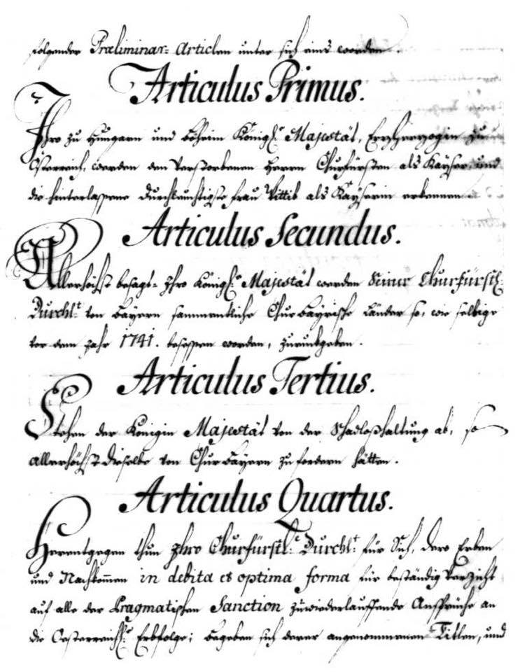 The Treaty of Füssen. Detail with the first three articles